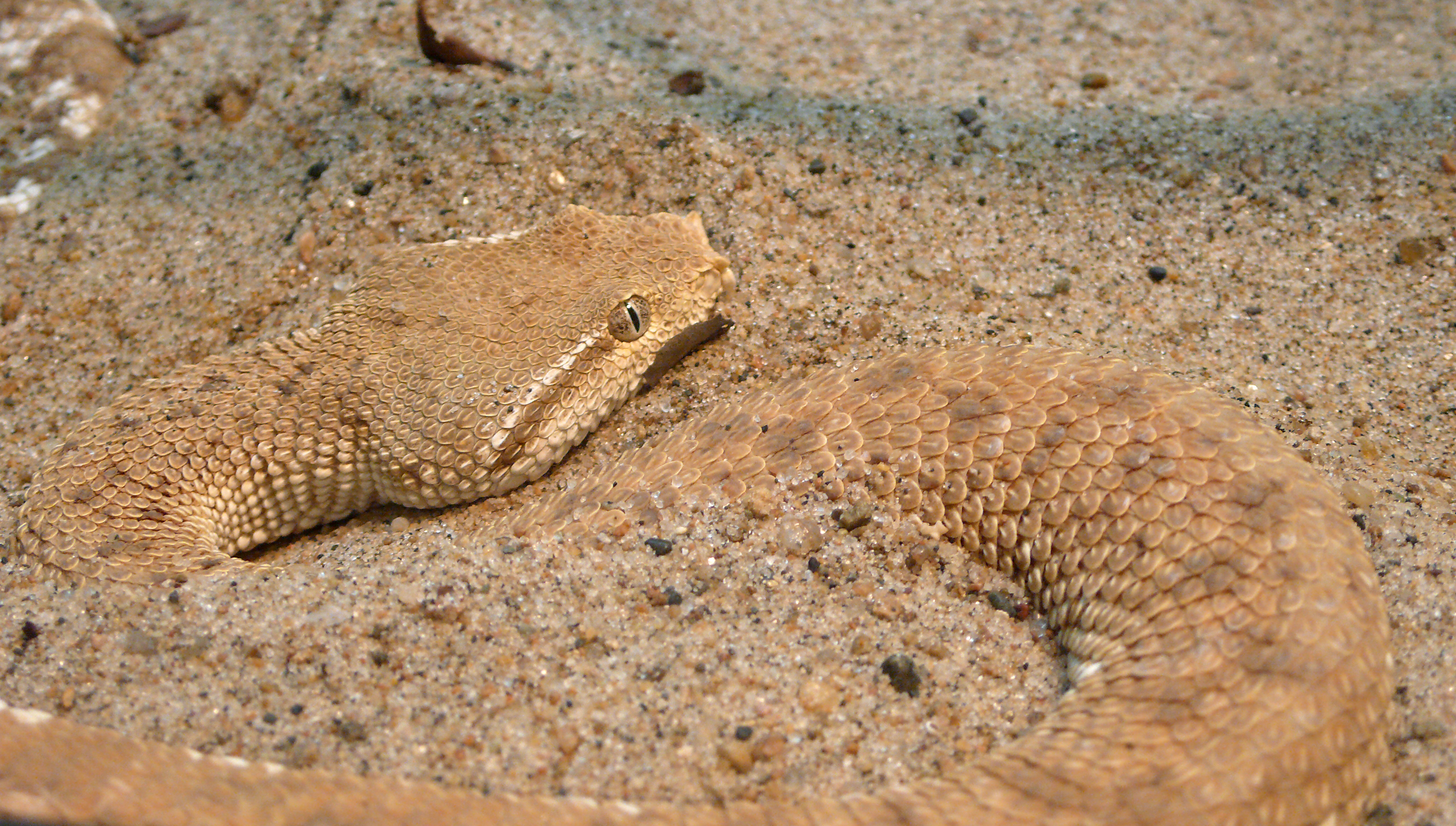 Leaf-nosed viper (Eristicophis macmahonii)